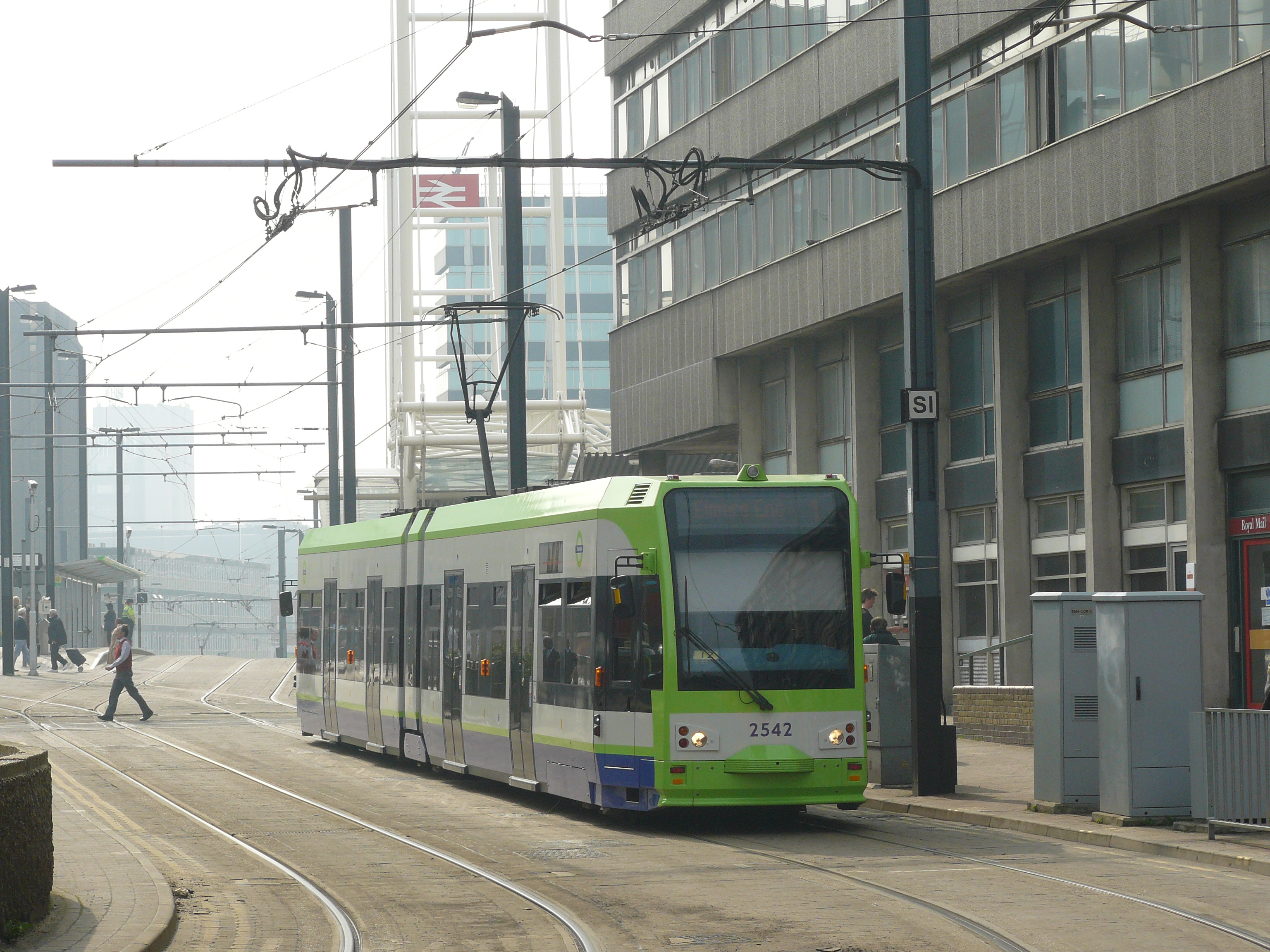 Tram at East Croydon The tram has just left East Croydon station, and is passing the Post Office.